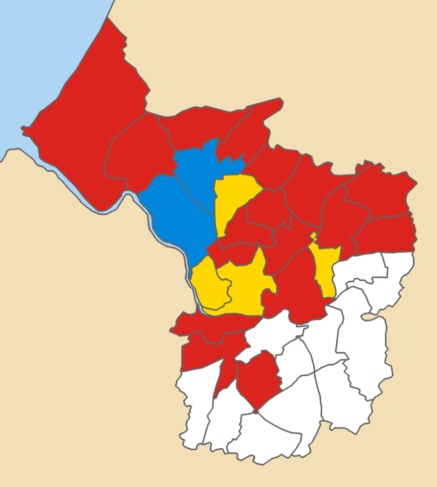 Results of the 1994 local elections in Bristol Colours: Conservative Labour Liberal Democrat No election in 1994